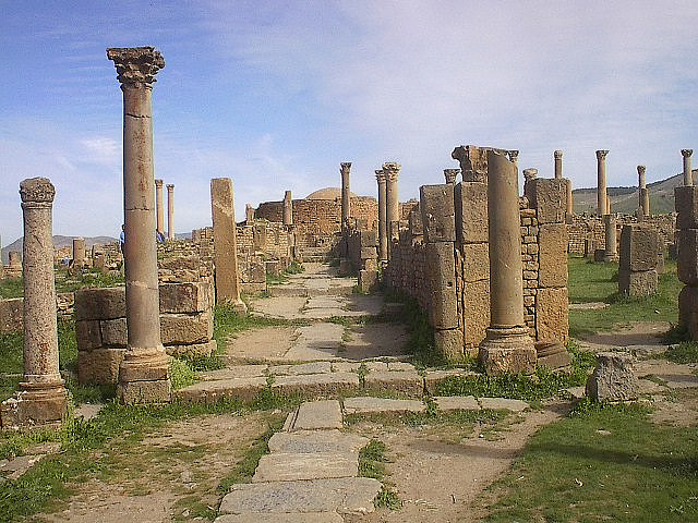 Famous View.